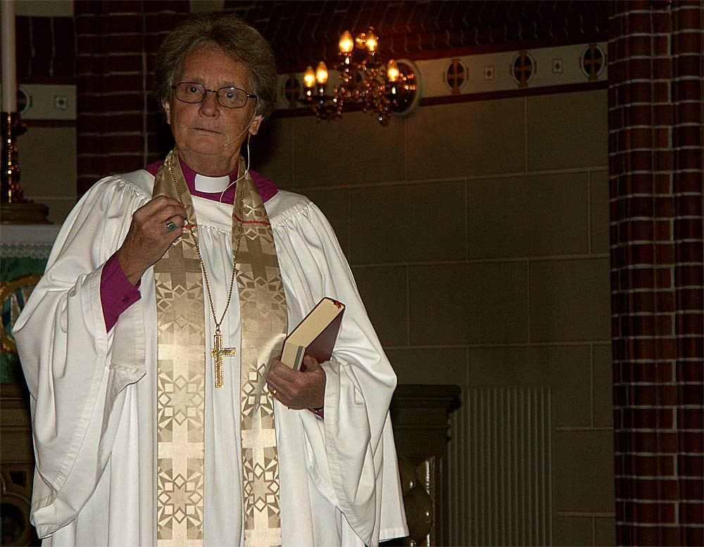 Bishop Christina Odenberg, diocese of Lund of the Church of Sweden. Picture taken in the Church of Eslöv (Eslövs kyrka).